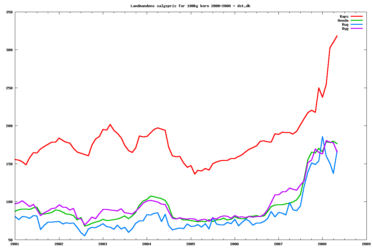 Price of cereals in Denmark from 2000 to 2008